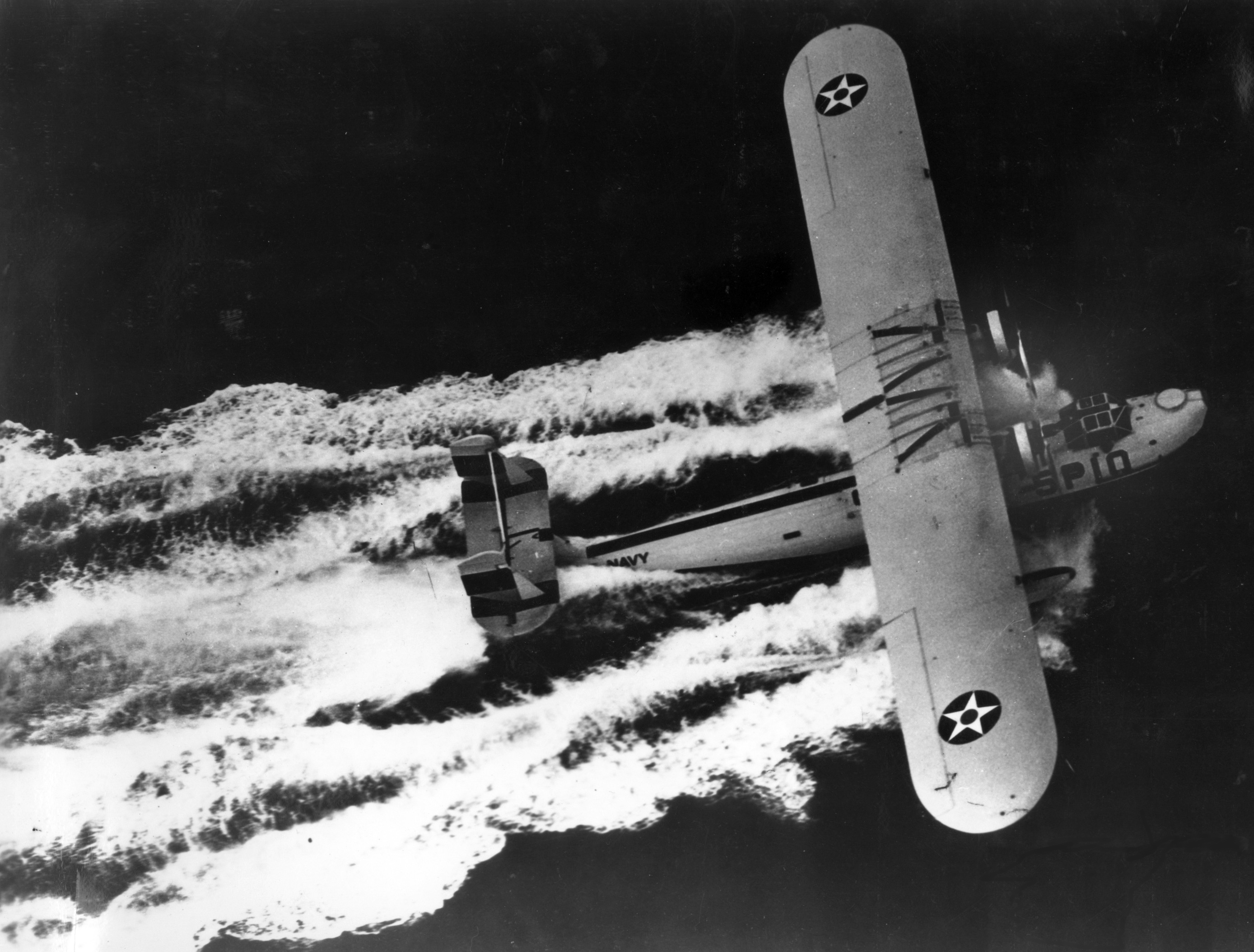 A U.S. Navy Consolidated P2Y-1 from Patrol Squadron VP-5F taking off. VP-5F was stationed at Naval Station Coco Solo, Paname Canal Zone.